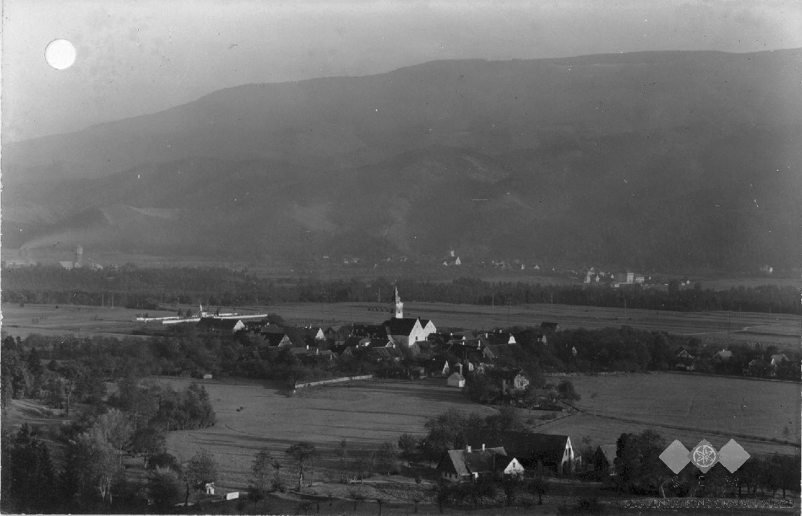 Postcard of Selnica ob Dravi